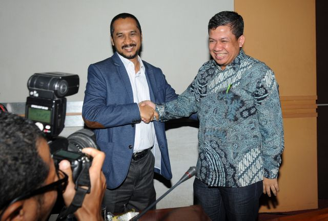 Fahri Hamzah and Abraham Samad.